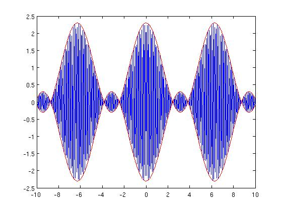 Surmodulated signal. Matlab was used to plot this diagram